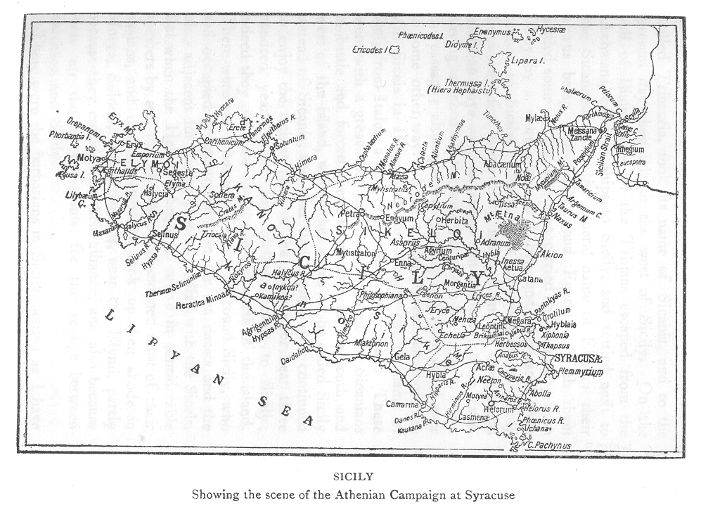 Sicily and the Scene of the Athenian Campaign before Syracuse